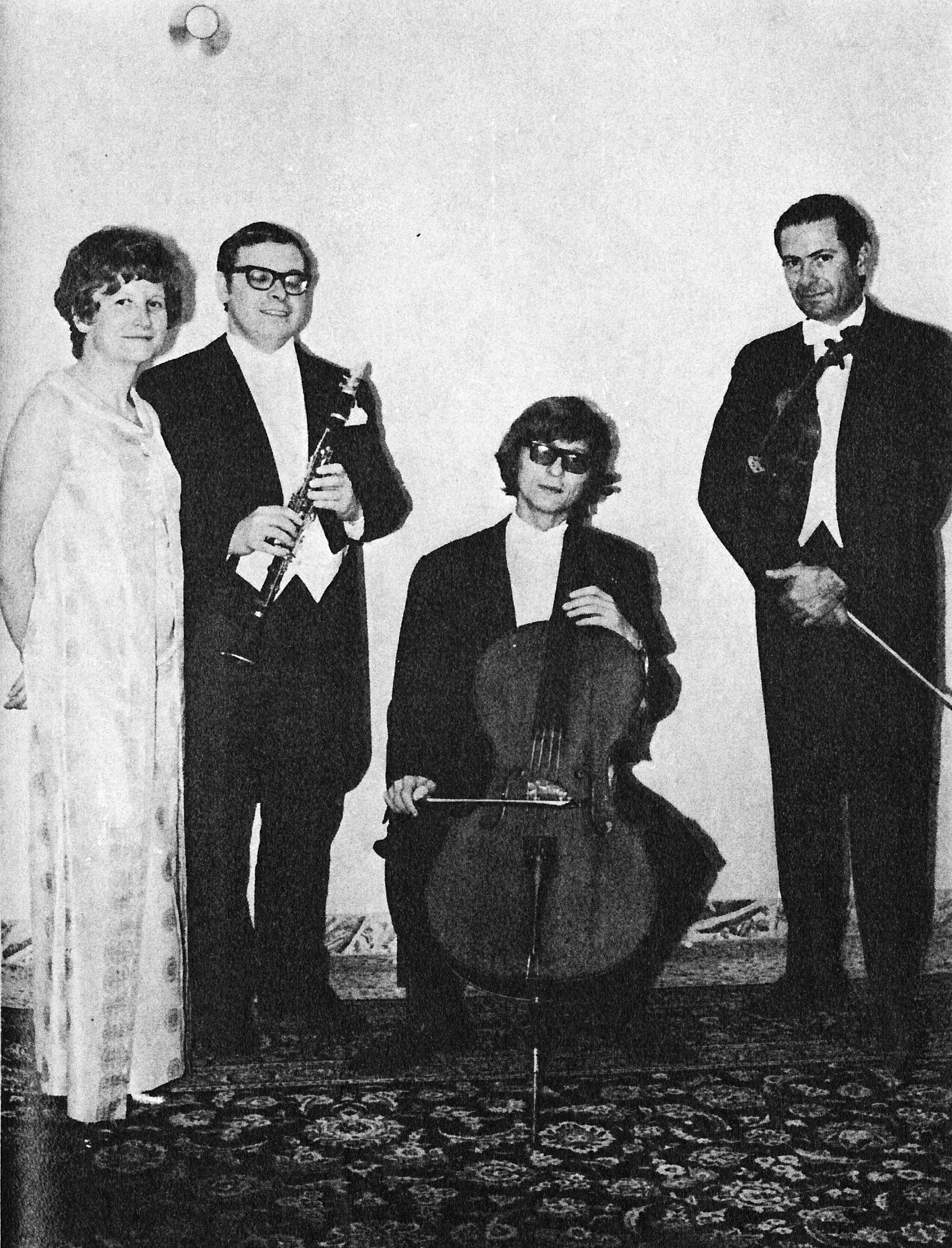 Quartet before a concert in Tehran, invited by the director of the Philhamonic Orchestra Tehran, Iran